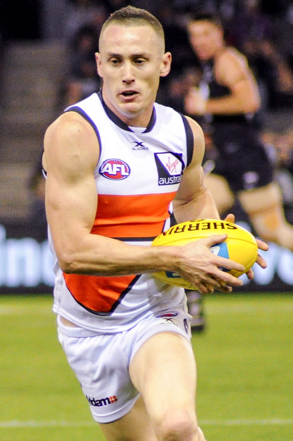 Tom Scully during the AFL round twelve match between Carlton and Greater Western Sydney on 11 June 2017 at Etihad Stadium in Melbourne, Victoria.